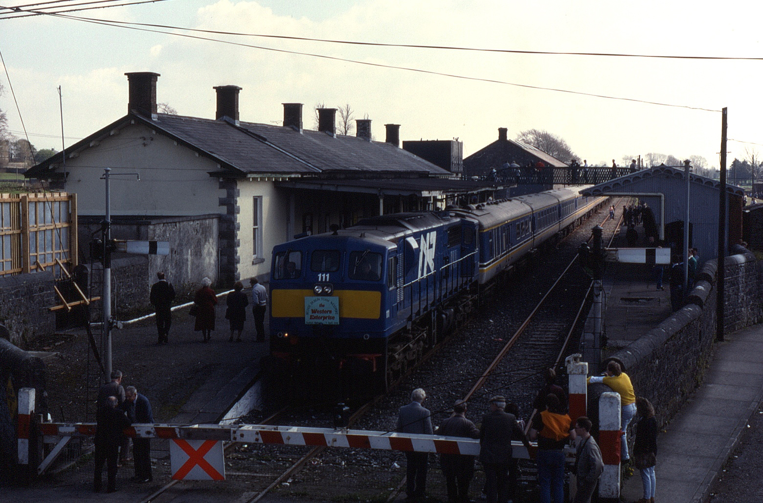 Northern Ireland Railways (NIR) class 111 no. 111 taken during a photo stop at Taum in Co. Galway during "The Western Enterprise" railtour organised by Southern Railtours on 7 April 1990. Taum is on the line from Athenry to Claremorris. Passenger services were withdrawn in 1976 and at the time of writing are still awaiting approval for re-opening.